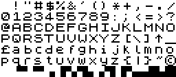 The Sinclair ZX Spectrum character set as rendered in the 8×8 system font, scaled 2× for clarity. Includes all unique default printable characters (code points 32-143).